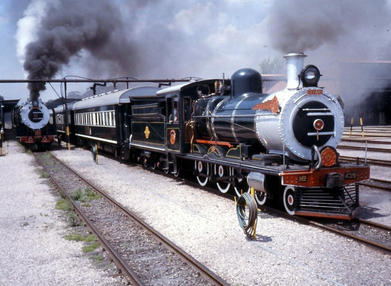 Ex Cape Government Railways Class 6 no. 368, renumbered to 568Ex Oranje-Vrijstaat Gouwermentspoorwegen Class 6 no. 68Ex Central South African Railways Class 6-L1 no. 344South African Railways Class 6 no. 439Builder's works number: Dübs 3093Location: Capital Park, Pretoria, Gauteng